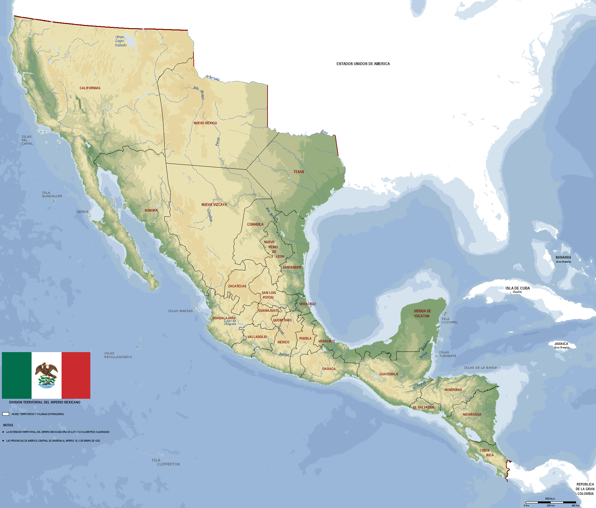 First Mexican Empire Map 1821